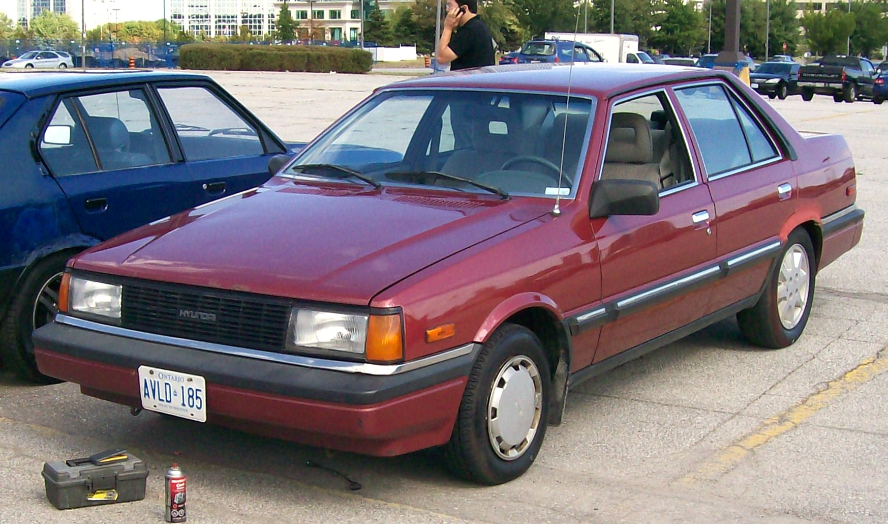 Hyundai Stellar (rebadged Sonata Y1 in Korea)